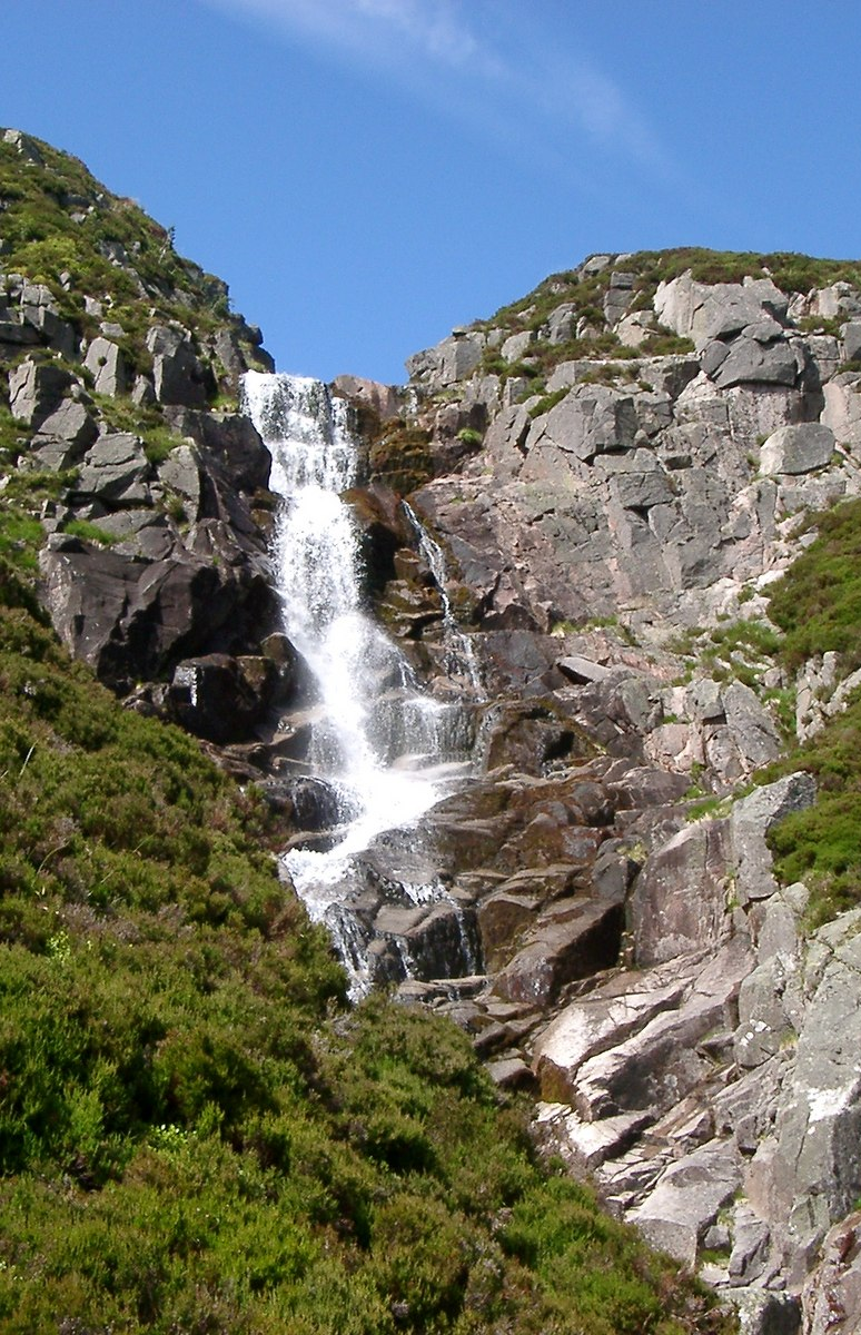 Falls of the Glasallt